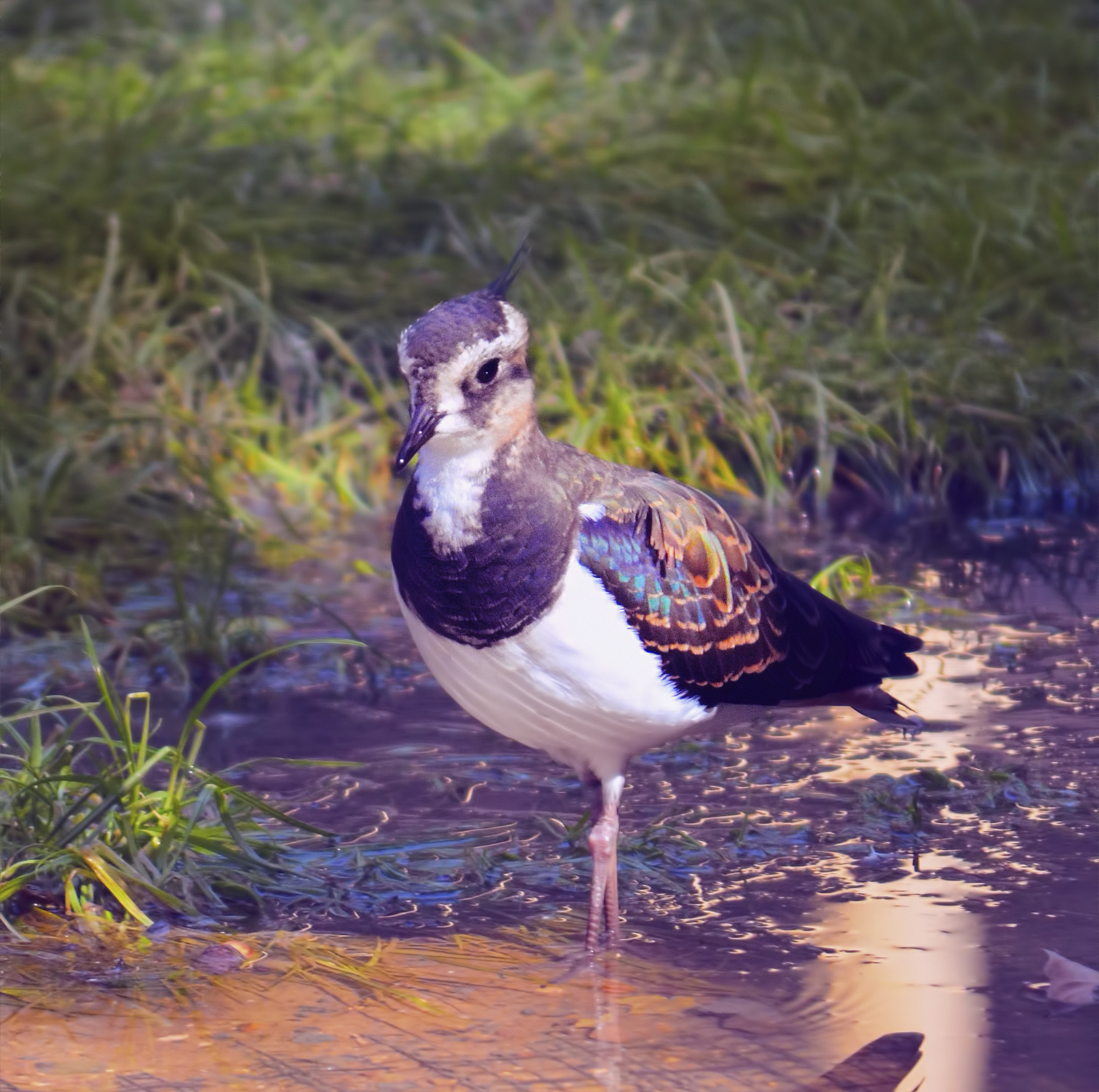 Northern lapwing.